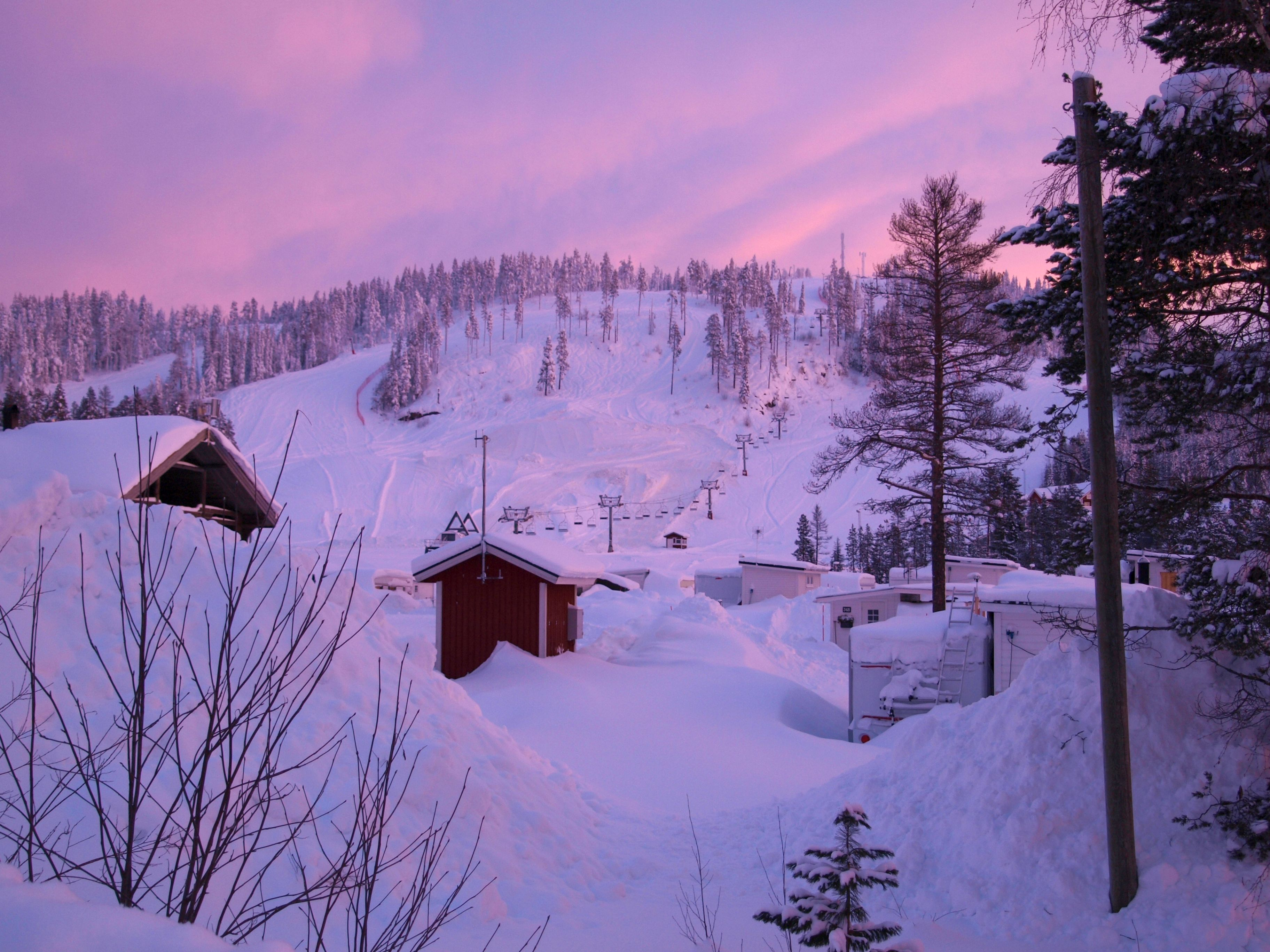 Kåbdalis-Ski